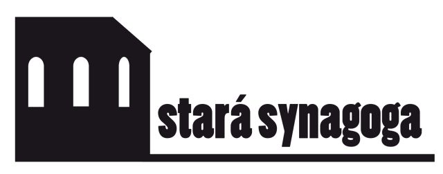 Logo of the Old Synagogue in Plzeň - created by Bc. Kateřina Kotyk, DiS. for the Jewish Community of Plzeň in 2019